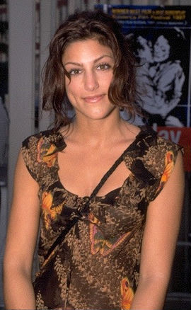 Jennifer Esposito At the Premier of the film 'Sunday'.